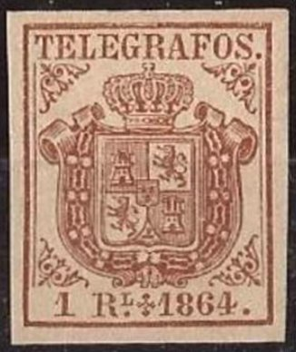 Spain 1864 1r telegraph stamp.